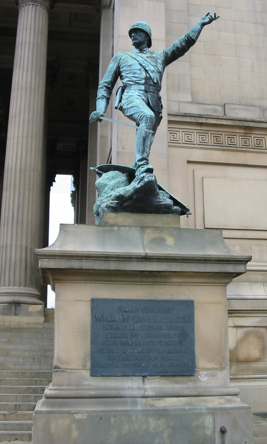 Liverpool